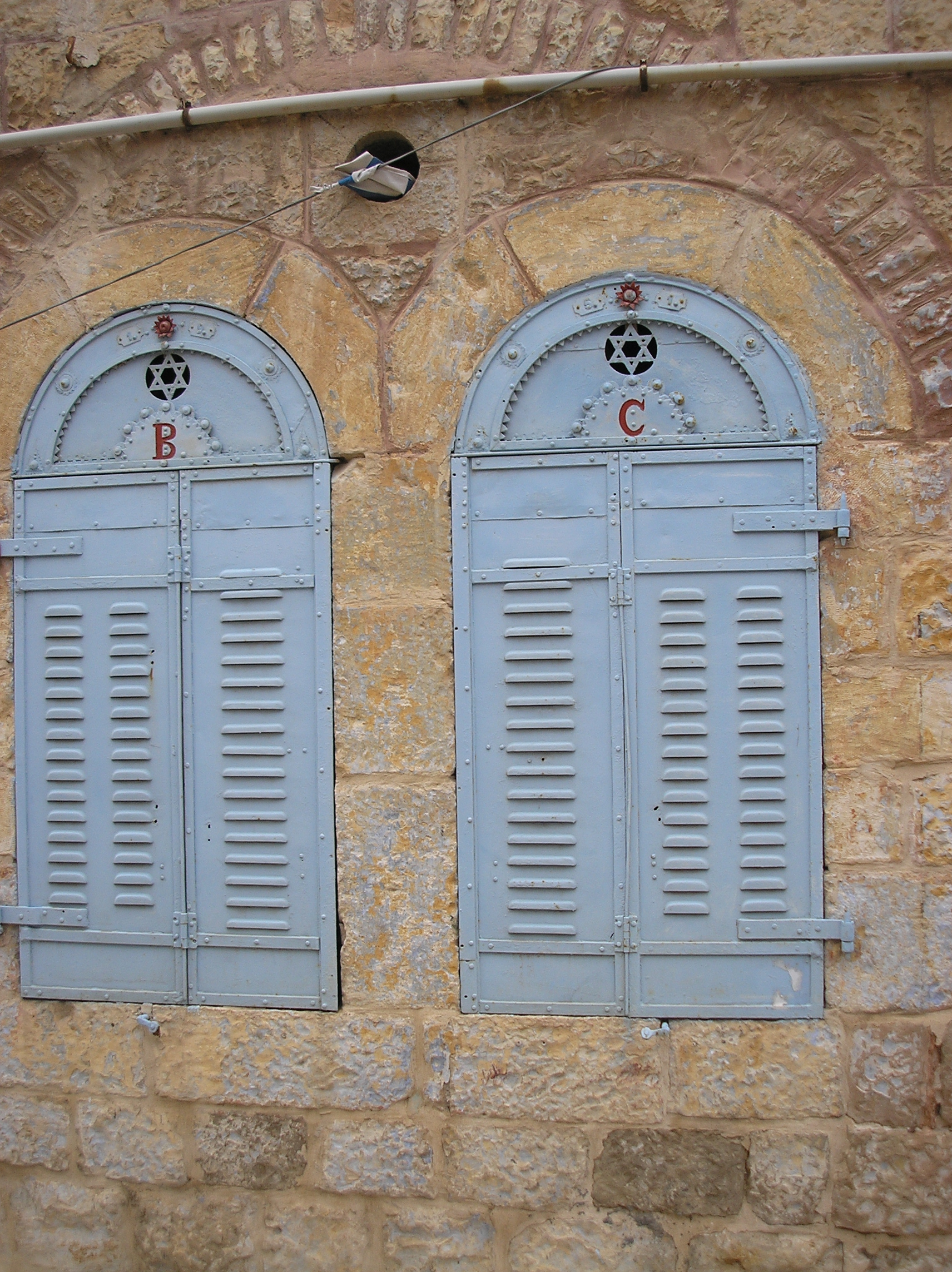 Jerusalem, 34 Zichron Tuvya street in Nahlaot - window shutters 1951 B C